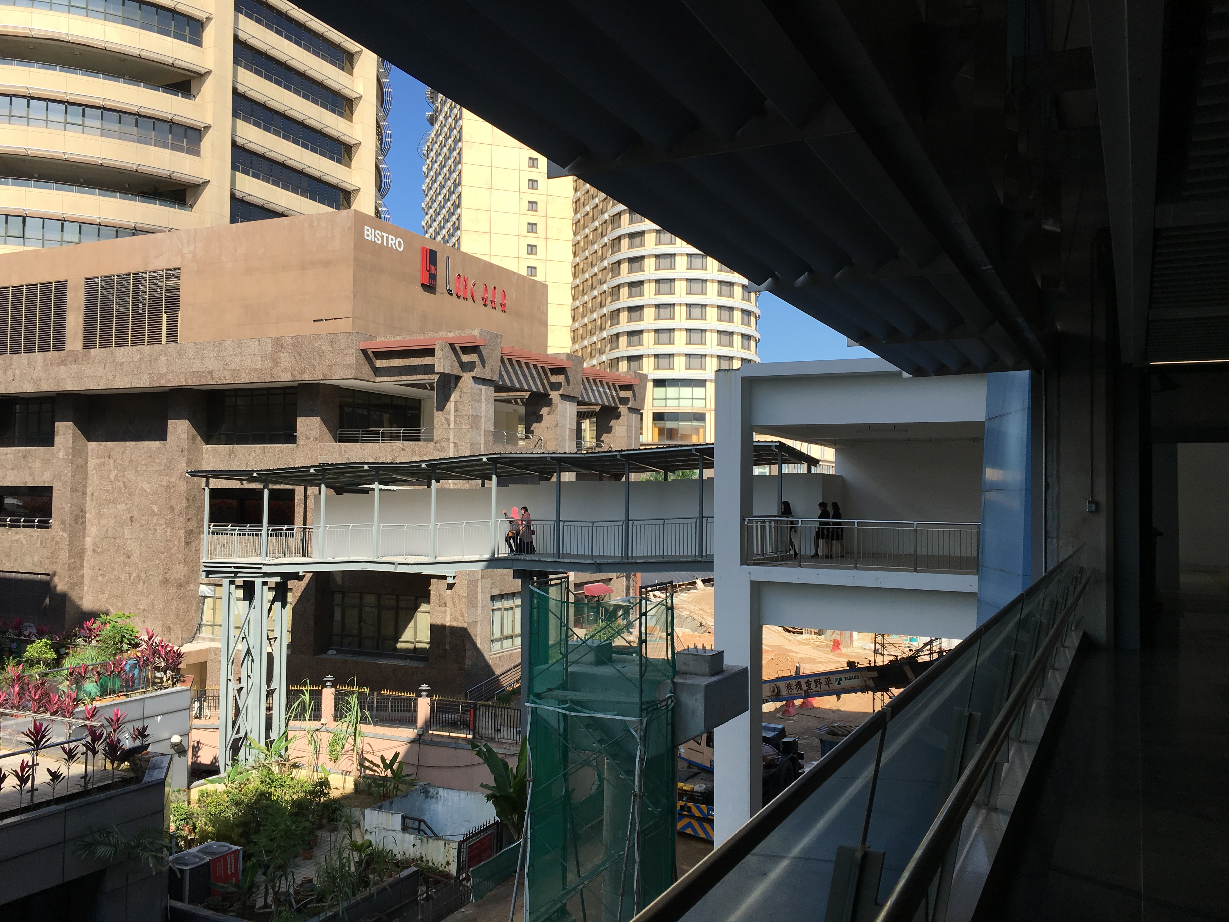 View of the pedestrian link bridge from Entrance B of the station to One World Hotel and 1 Utama Shopping Mall.